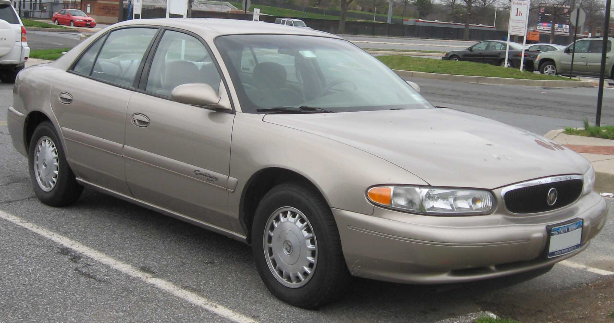 1997-2005 Buick Century photographed in College Park, Maryland, USA.